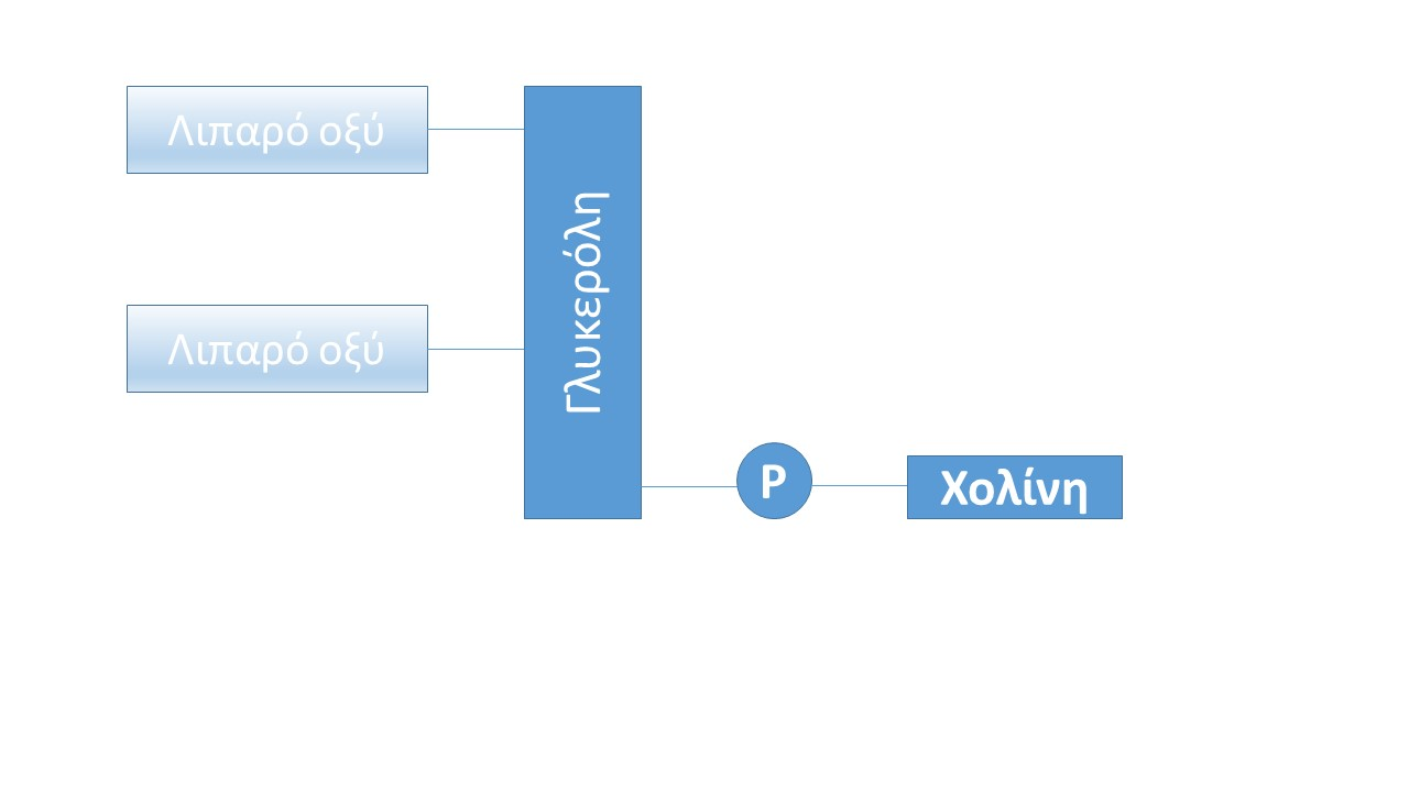 Structure chemical